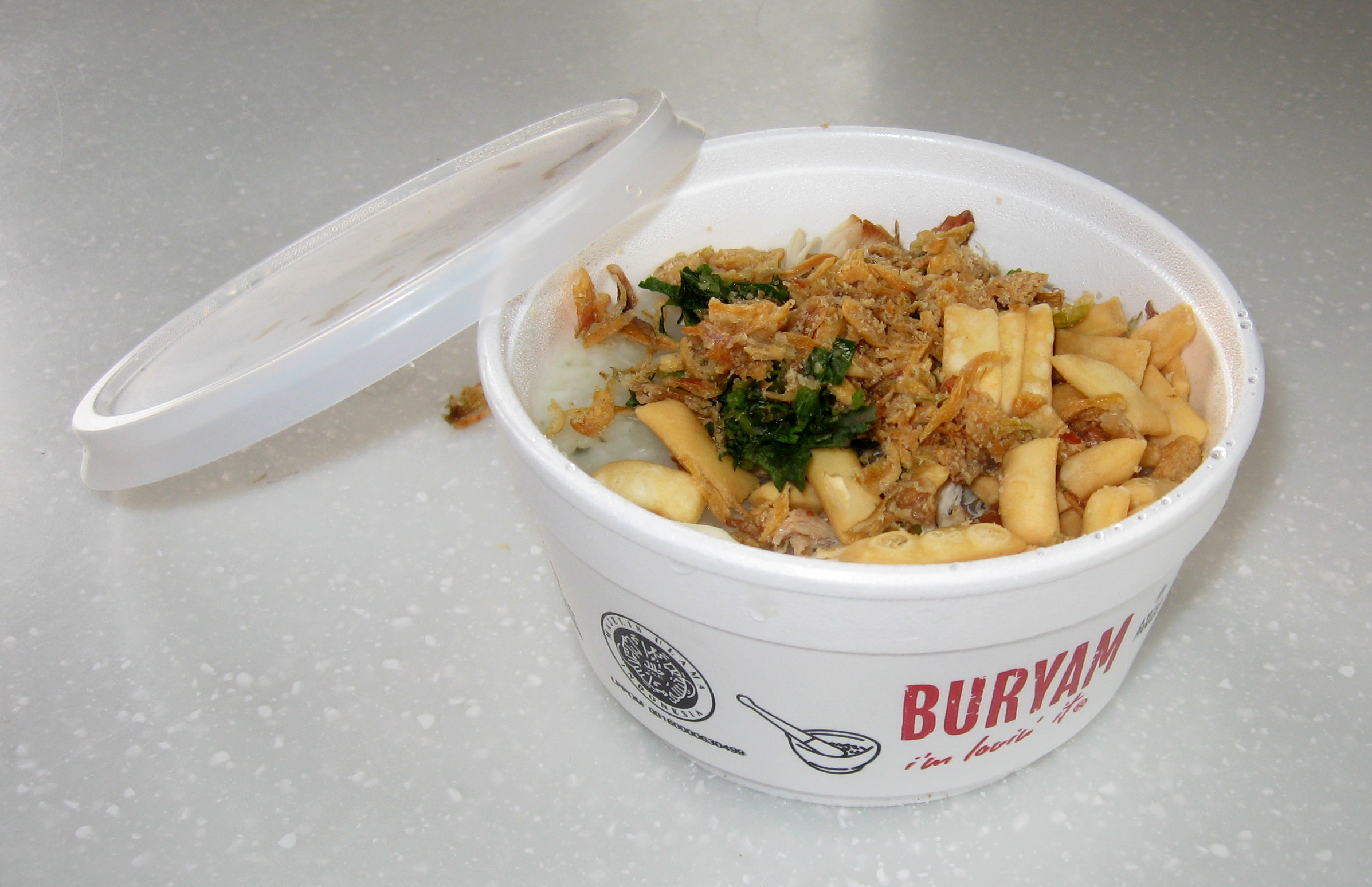 A bowl of congee at the McDonald's on Sudirman Street in Yogyakarta